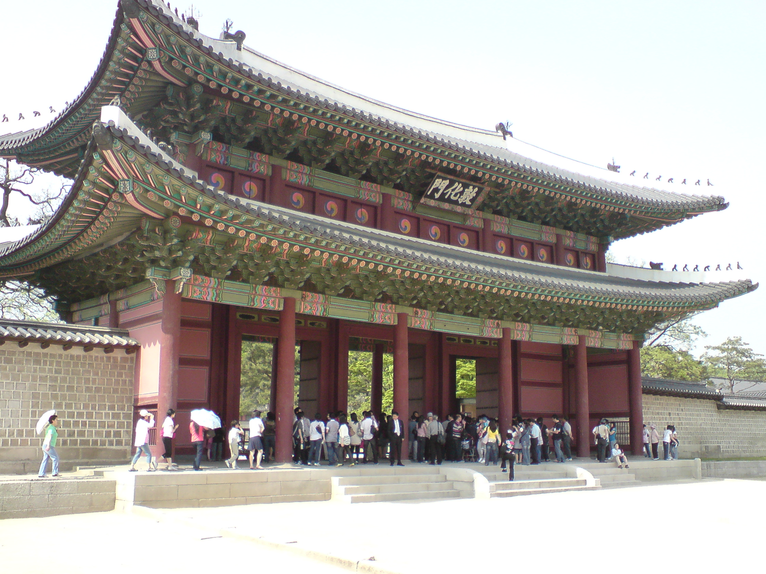 They only let in guided tours though, so we didn't go